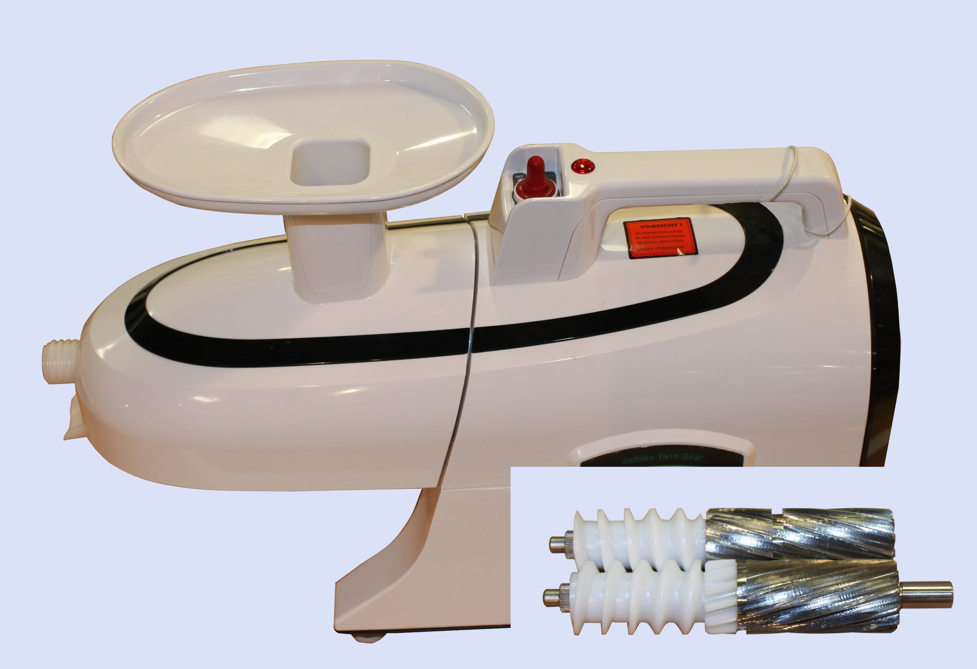 Greenstar juicer with two augers